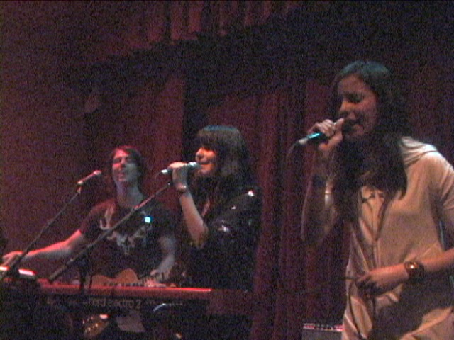 Benjamin Curtis, Alejandra and Claudia Deheza, of School of Seven Bells, performing at Tonic NYC on Mar 31 2007. From PUNKCAST#1130. Wwwhatsup 04:01, 15 May 2007 (UTC)